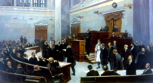 Oil painting of a session of the Parliament, with Charilaos Trikoupis at the podium